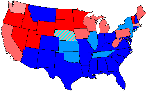 Summary of party control of U.S. house seats in the 63rd United States Congress following election. Stripes indicate a tie between two or more parties. Legend: 80.1-100% Democratic seat majority 60.1-80% Democratic seat majority 60% or less Democratic seat plurality 60% or less Republican seat plurality 60.1-80% Republican seat majority 80.1-100% Republican seat majority